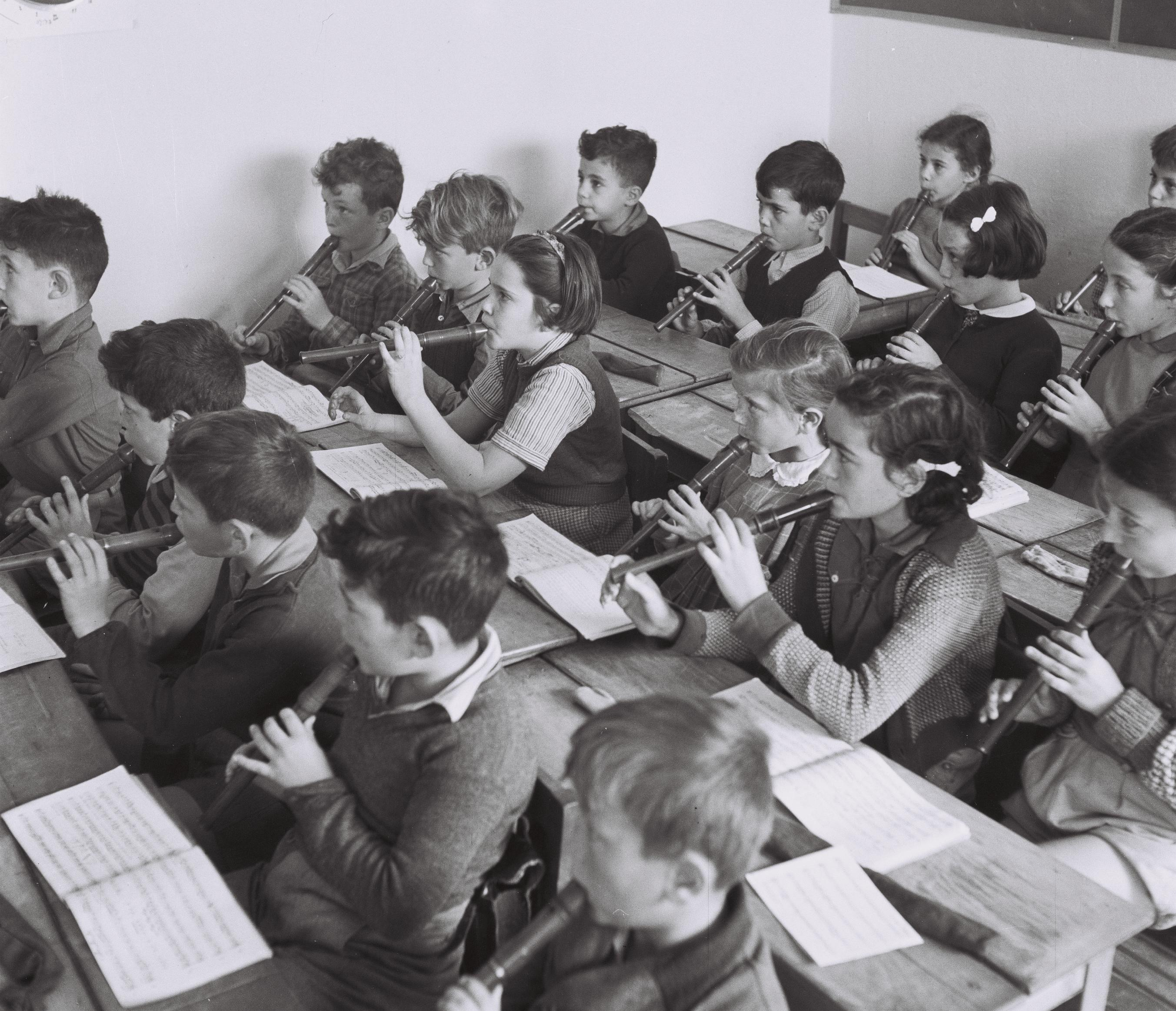 ELEMENTARY SCHOOL CHILDREN DURING A RECORDER LESSON IN THEIR CLASSROOM IN TEL AVIV. שיעור חלילית בבית ספר יסודי בתל אביב.